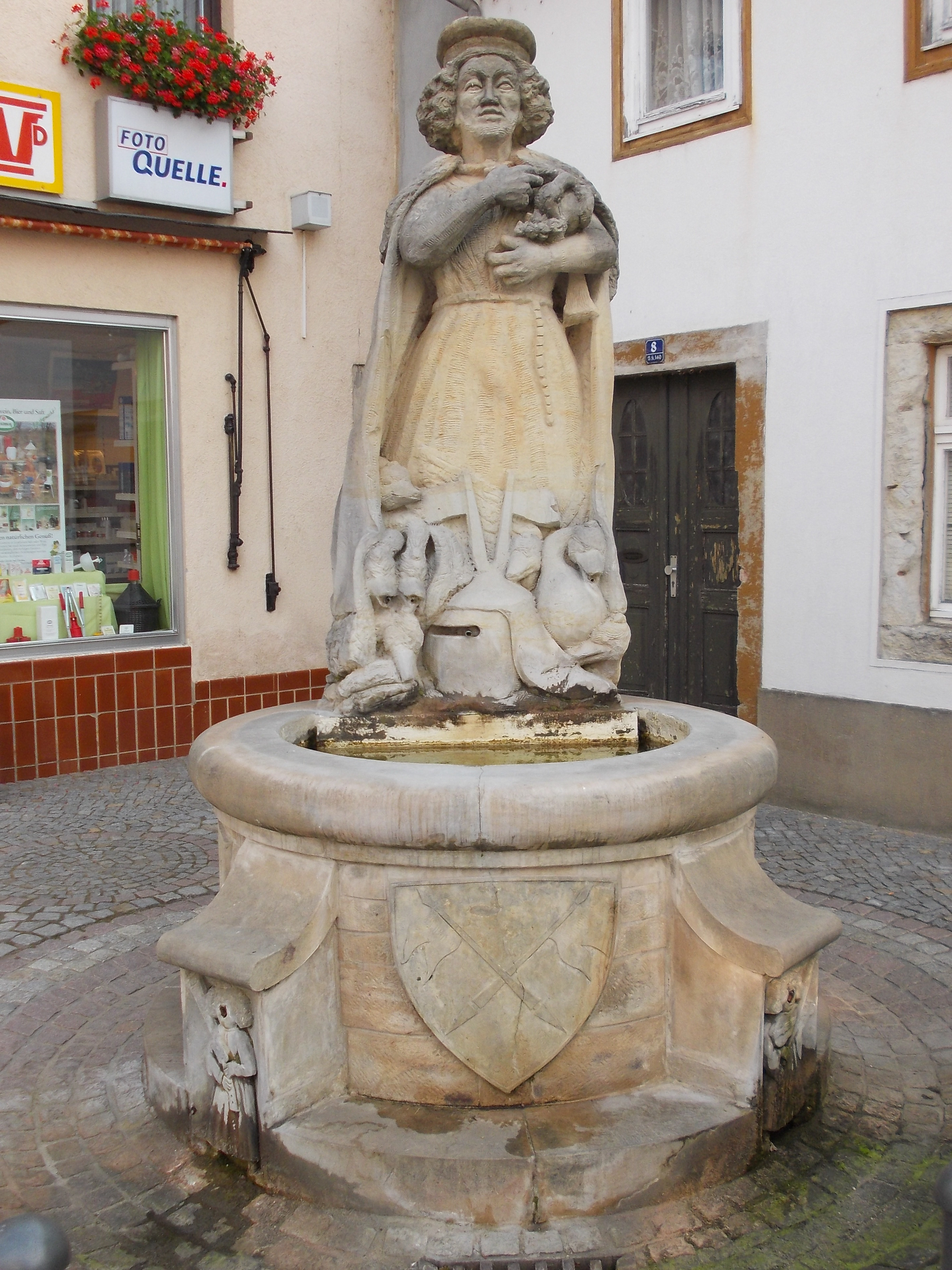 Fountain by Joachim Zehme in Altmarkt square in Mügeln, dedicated to the meistersinger Heinrich von Mügeln